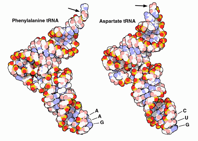 3D structure of two tRNA molecules